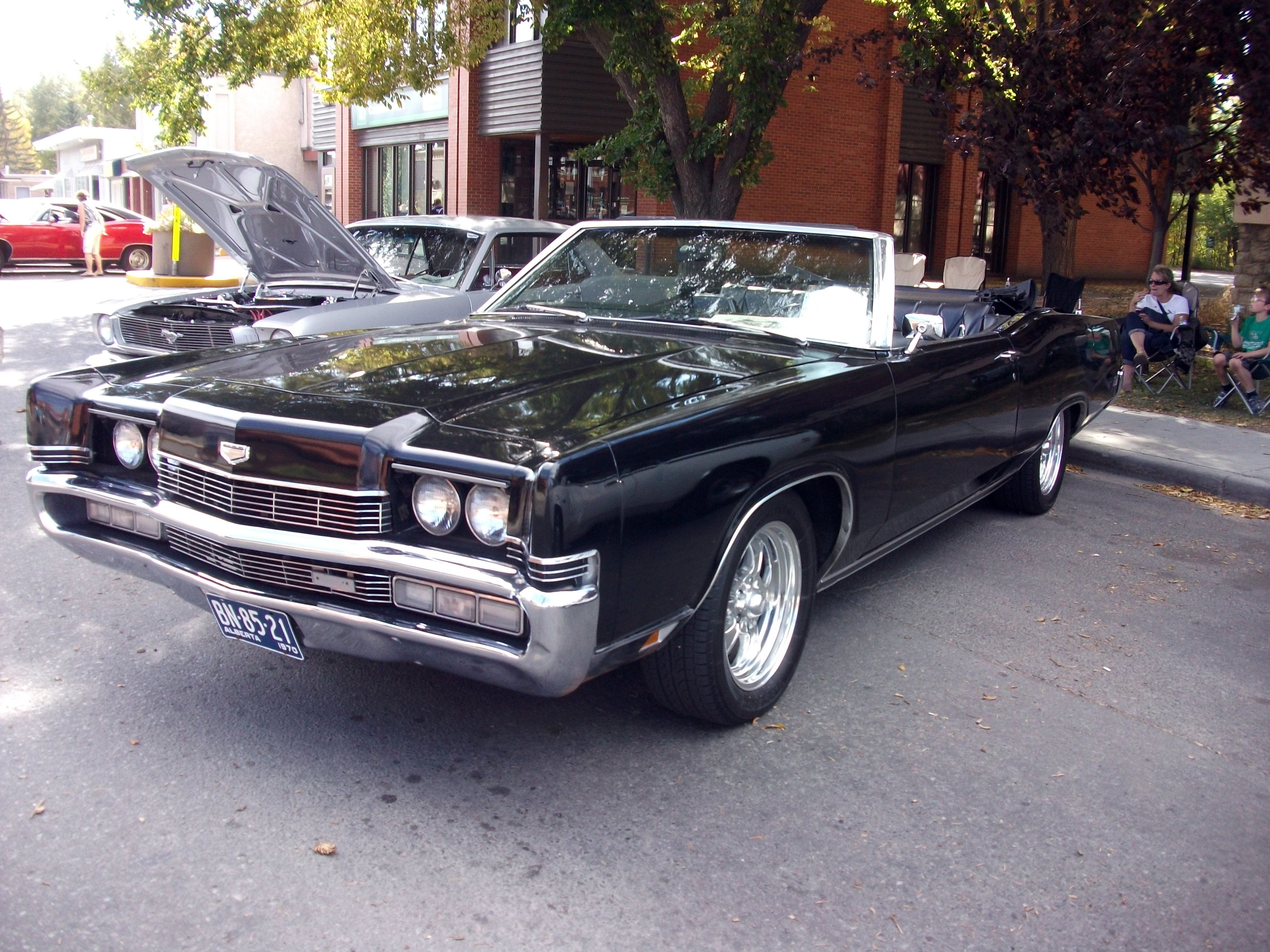 Front 3/4 view of a 1970 Mercury Marquis convertible (with hidden headlights open).